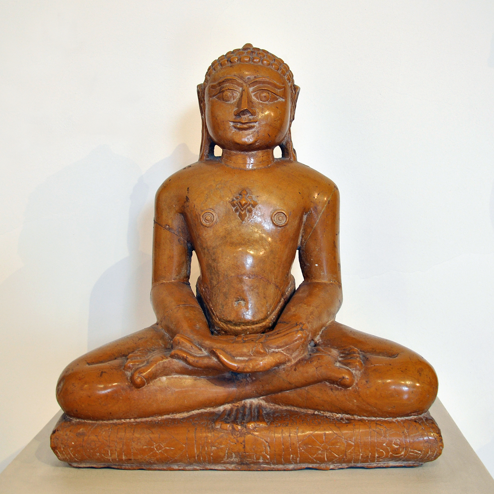 Mahavira, the 24th spiritual master of Jaïnism. Yellow stone (jasper ?), 1470, Gujarat, India. Royal Museums of Art and History (MRAH), Jubilee Park, Brussels, Belgium.